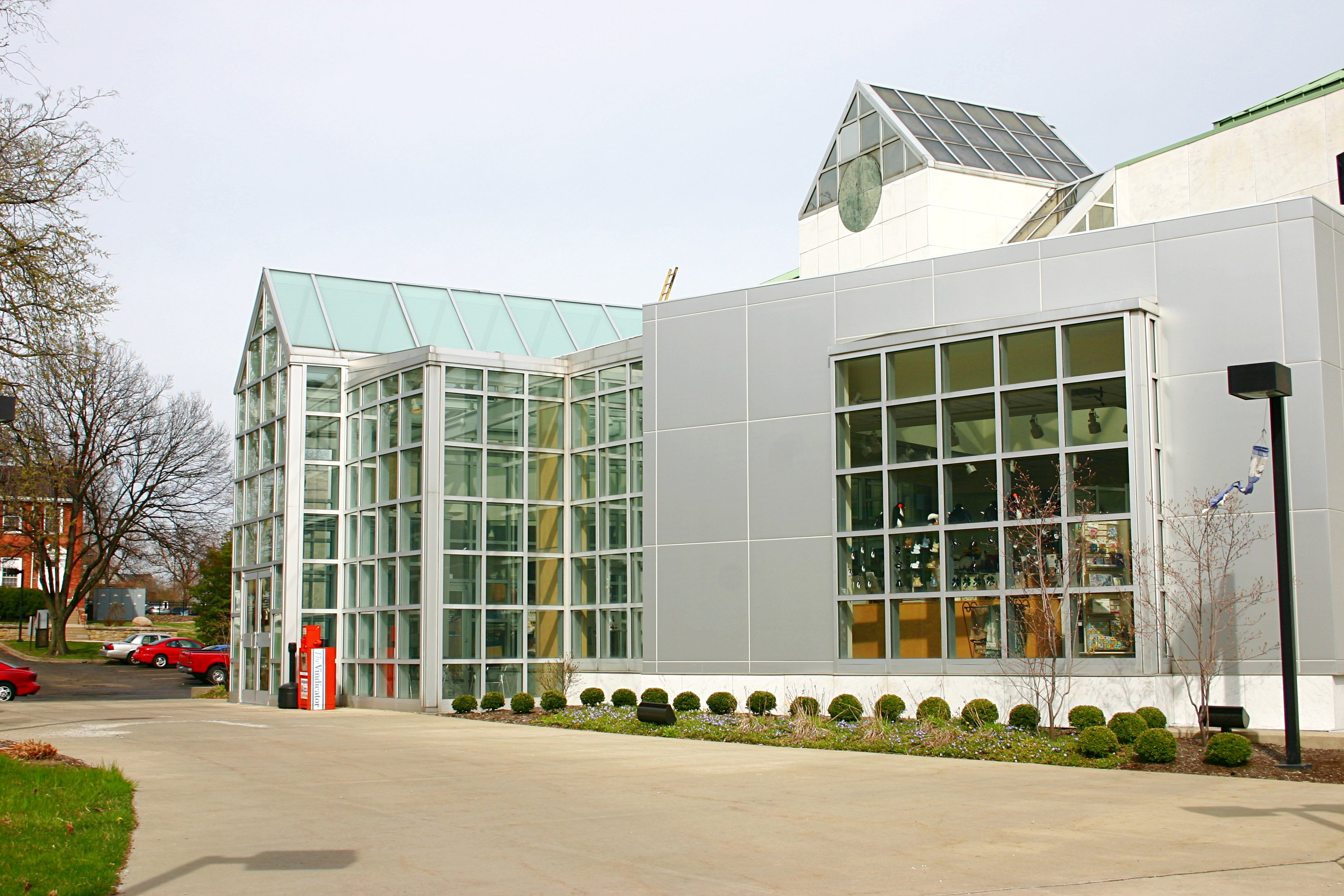 The back of the Butler Institute of American Art. The gift shop and cafe can be seen in this photograph.